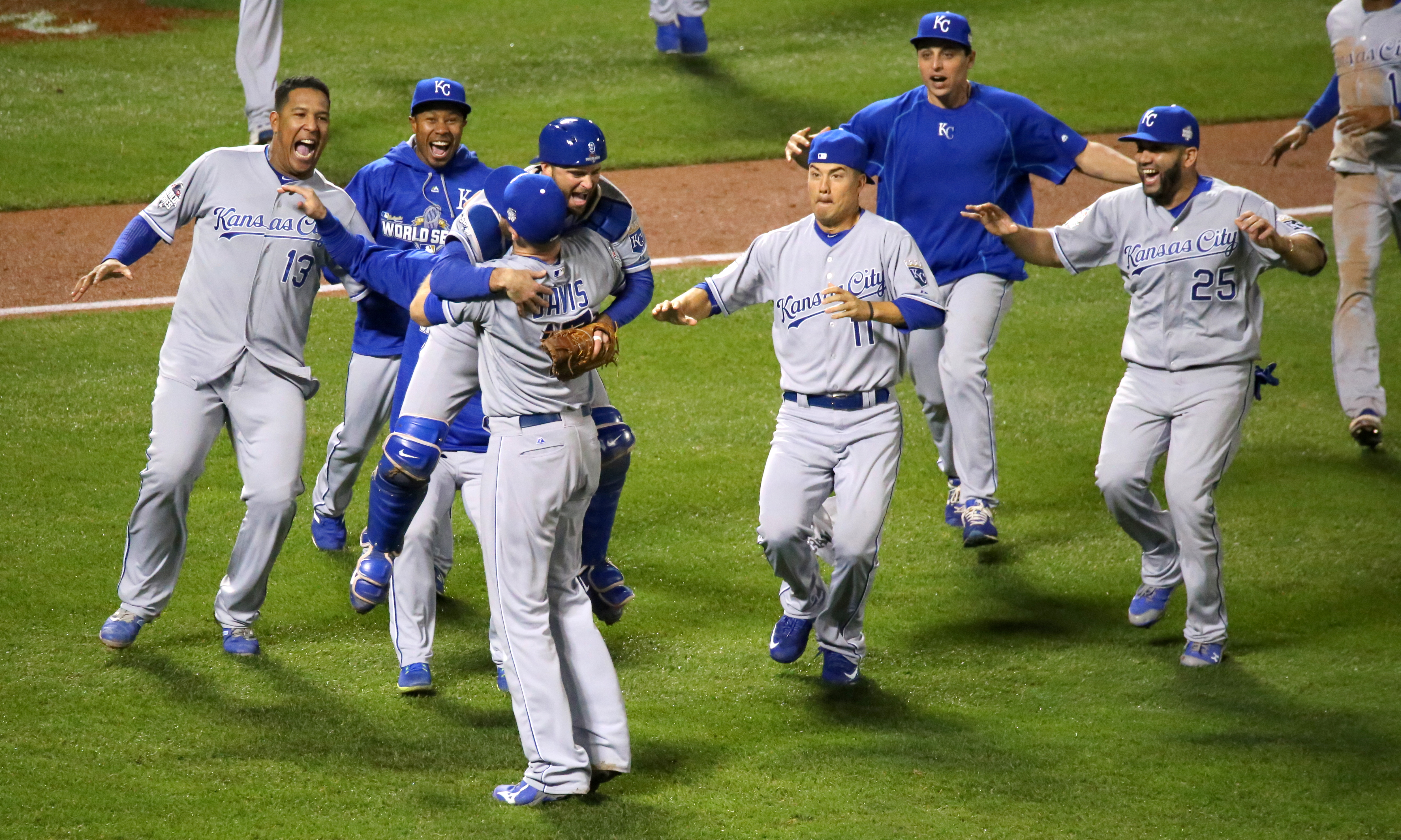 Royals win 2015 #WorldSeries